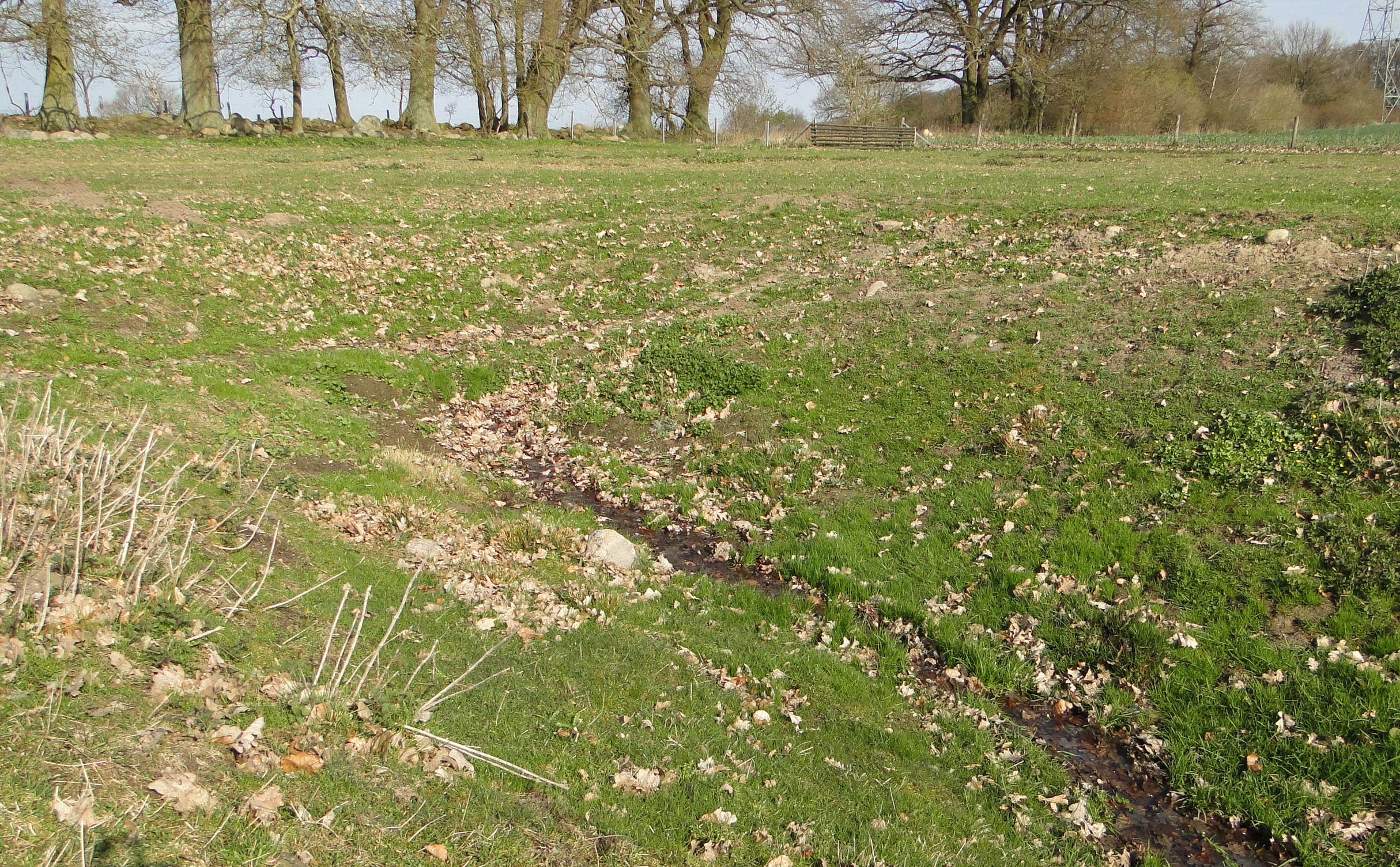 Spring of Elde river in Darze, disctrict Müritz, Mecklenburg-Vorpommern, Germany